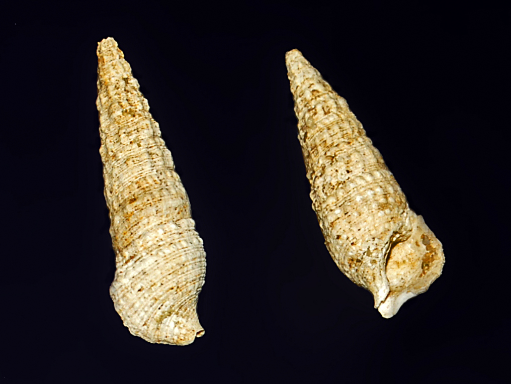 Fossil shells of Cerithium crenatum from Pliocene of Italy, on display at the Museo Paleontologico, Asti